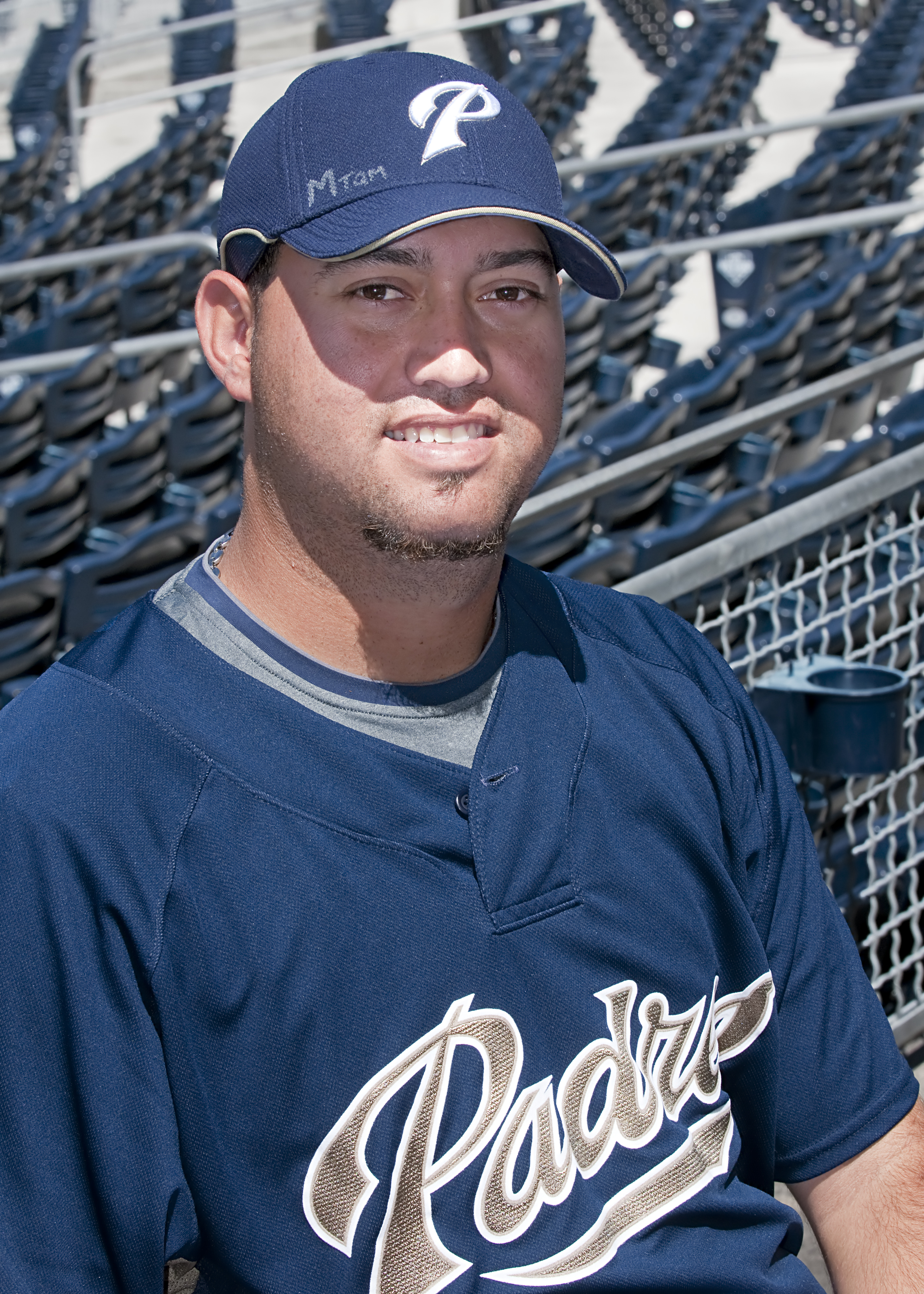 Edward Mujica, pitcher for the San Diego Padres, at Fan Fest April 5, 2009.